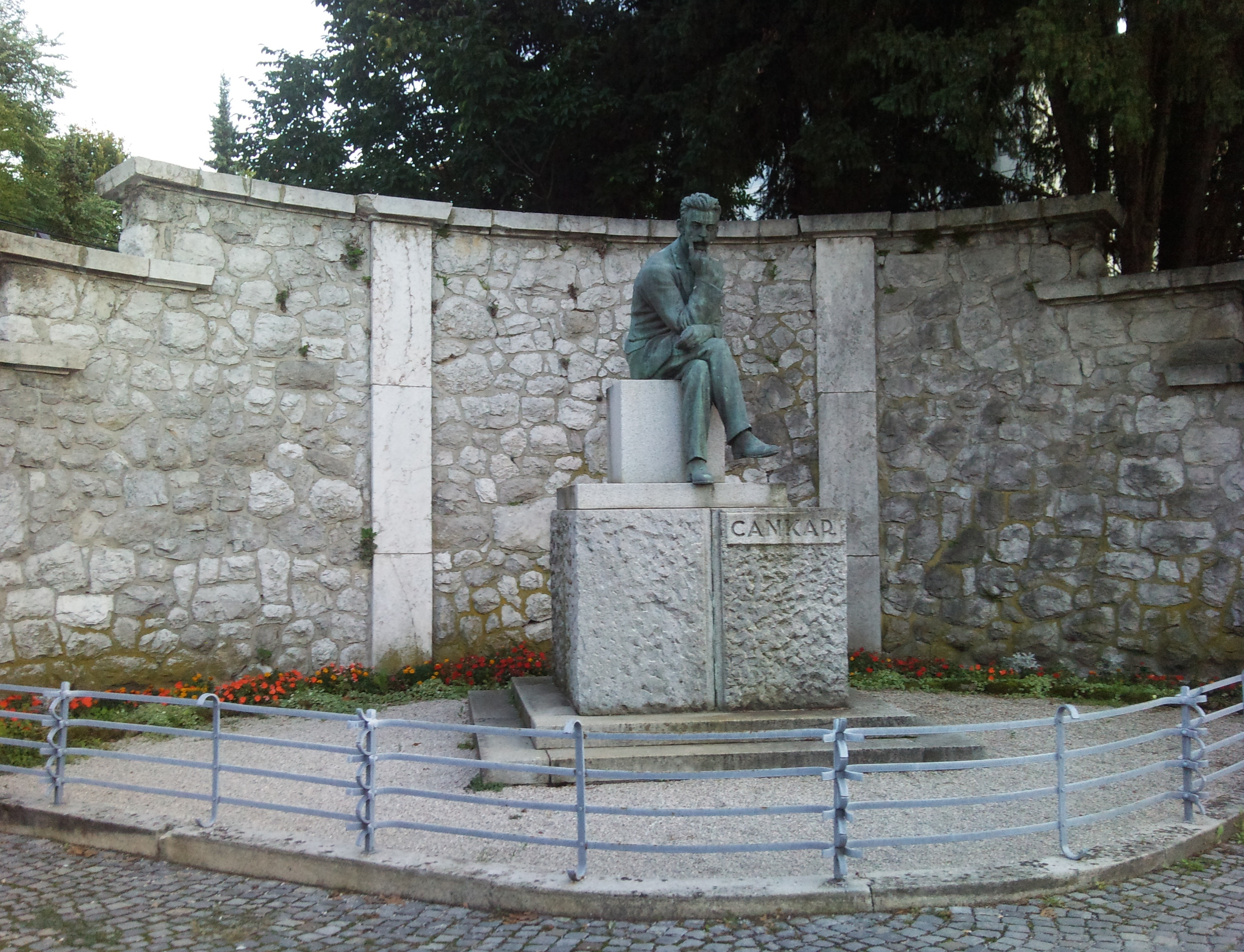 Ivan Cankar monument in Vrhnika